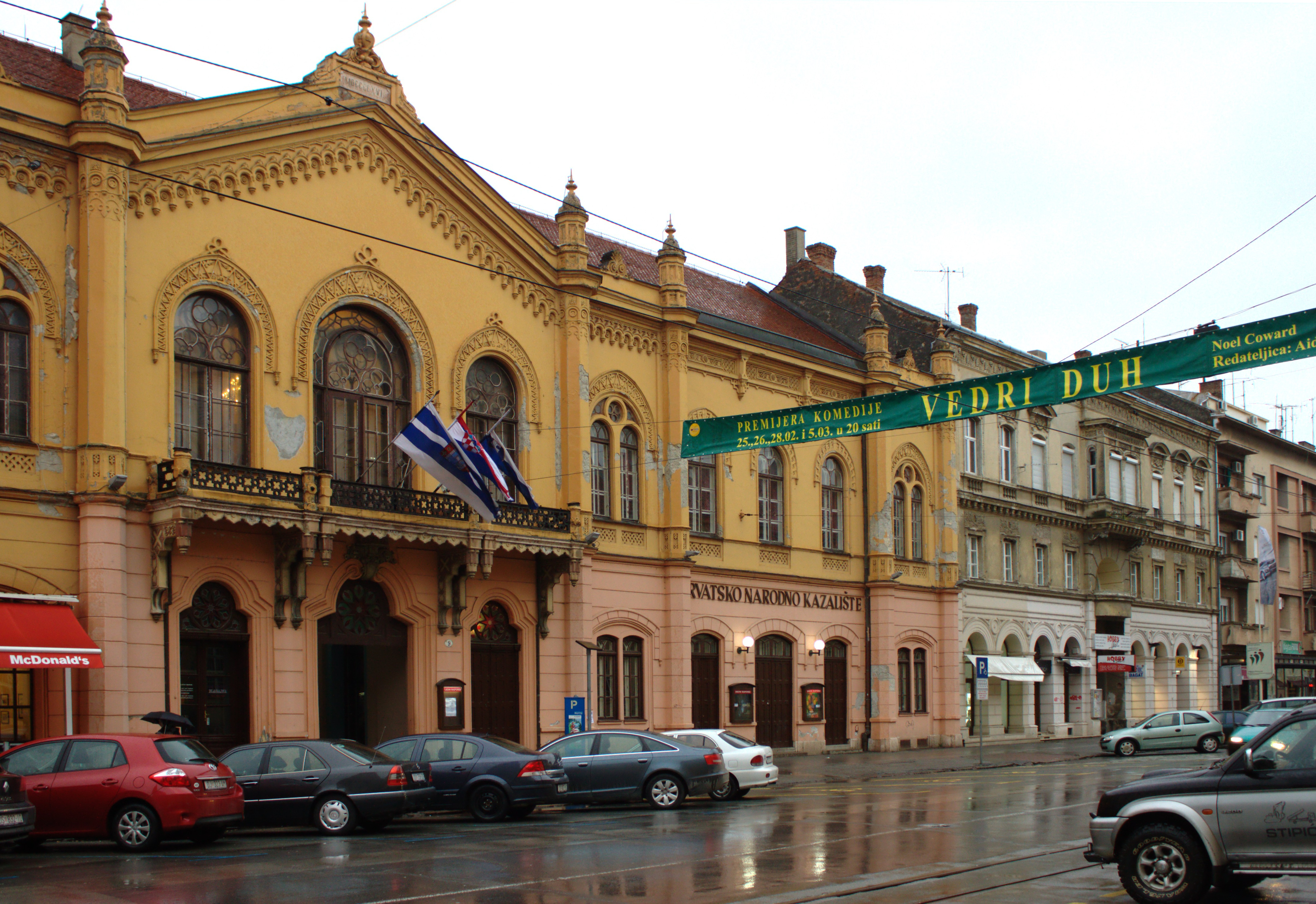 A theater building in Osijek, Croatia